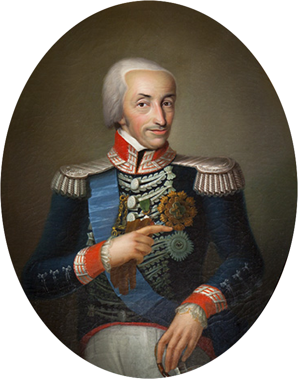 Portrait of Victor Emmanuel I of Sardinia (1759-1824)